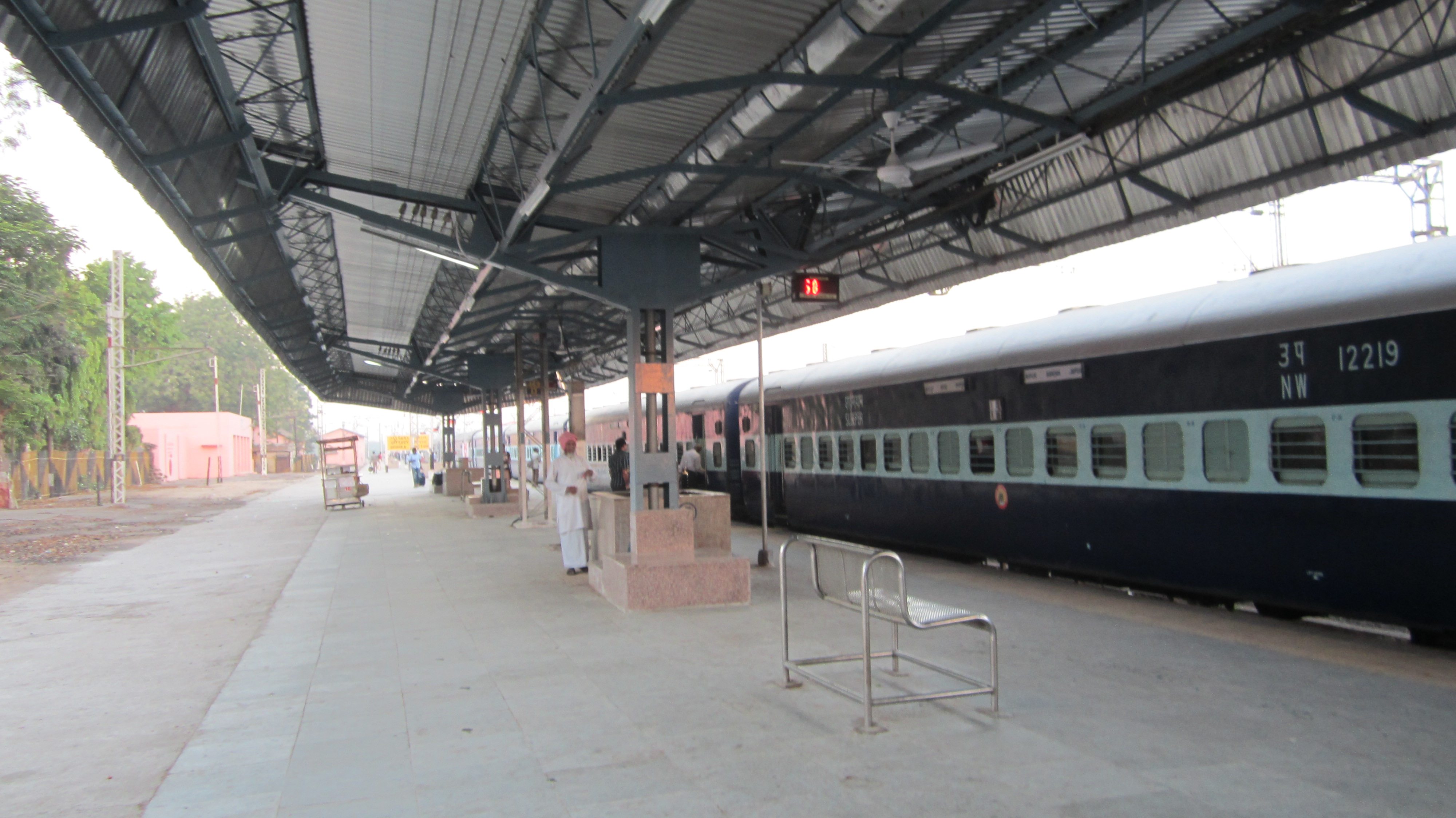 Godhra junction railway station in 2013. A view from platform.